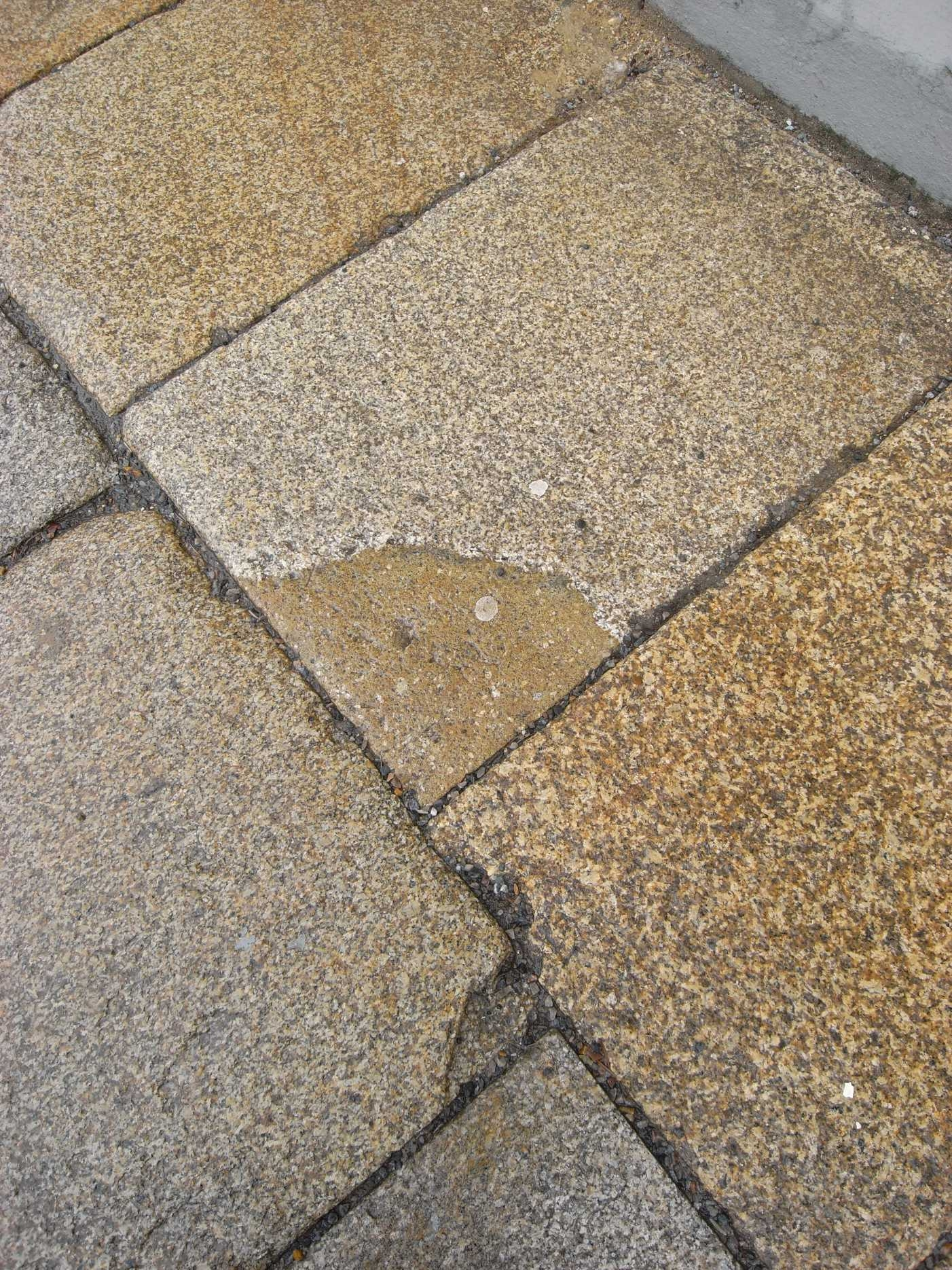 sidewalk pavement of granite in Chemnitz (Saxony, Germany)